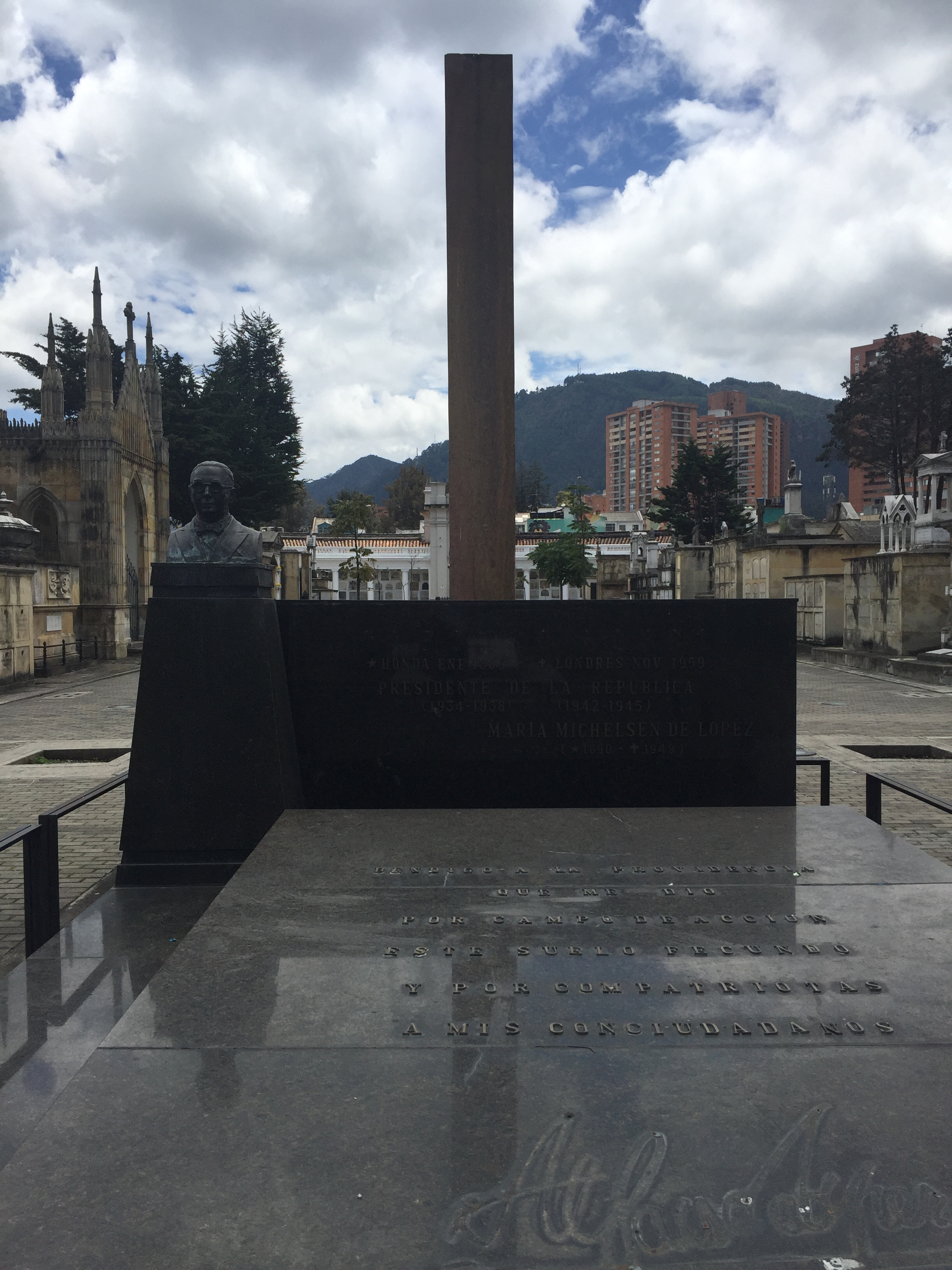 Grave of Alfonso López Pumarejo, President of Colombia.